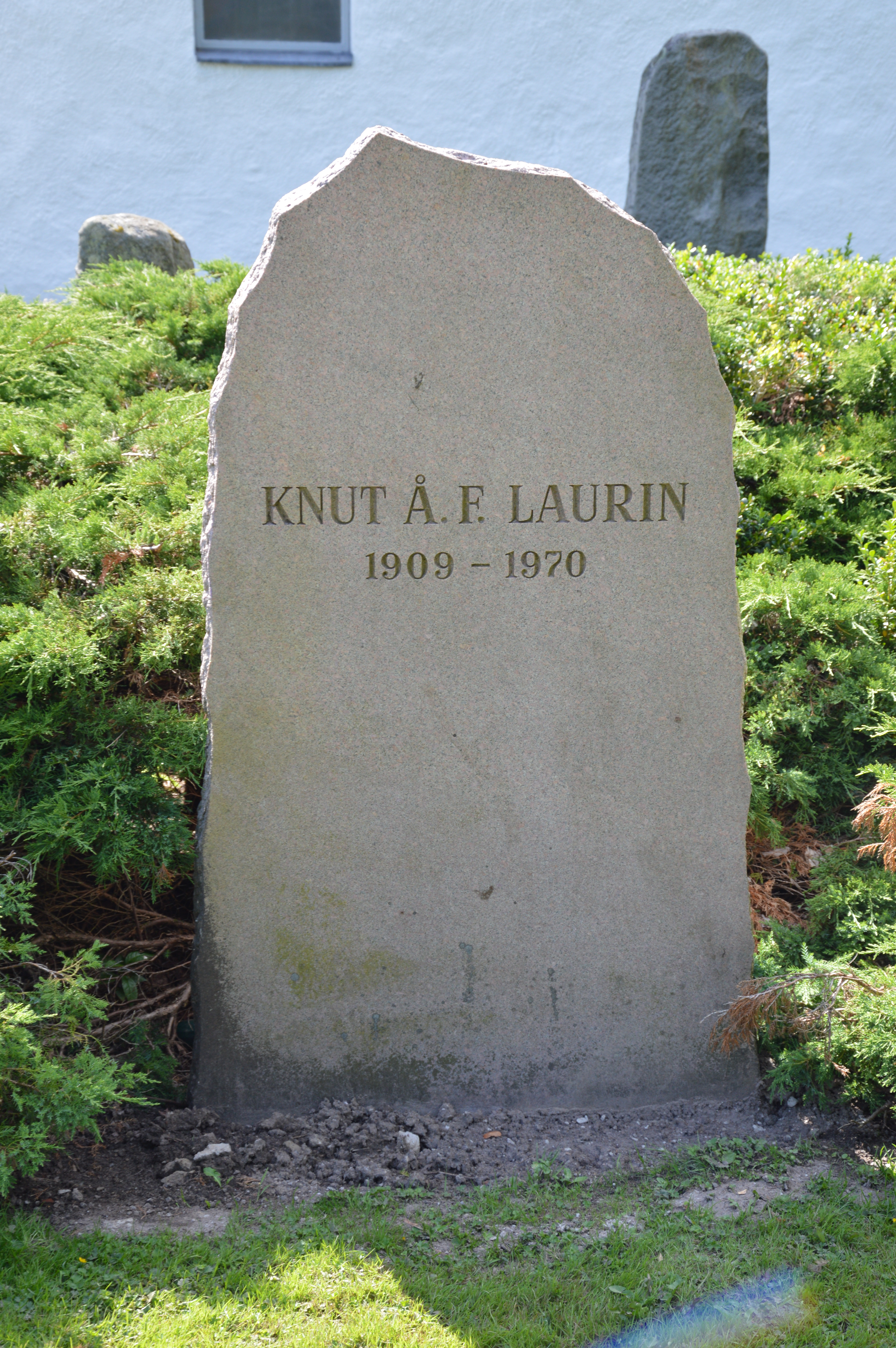 Grave of Knut Laurin (1909-1970), swedish businessman. Skarhult's cemetary, Eslöv, Sweden.